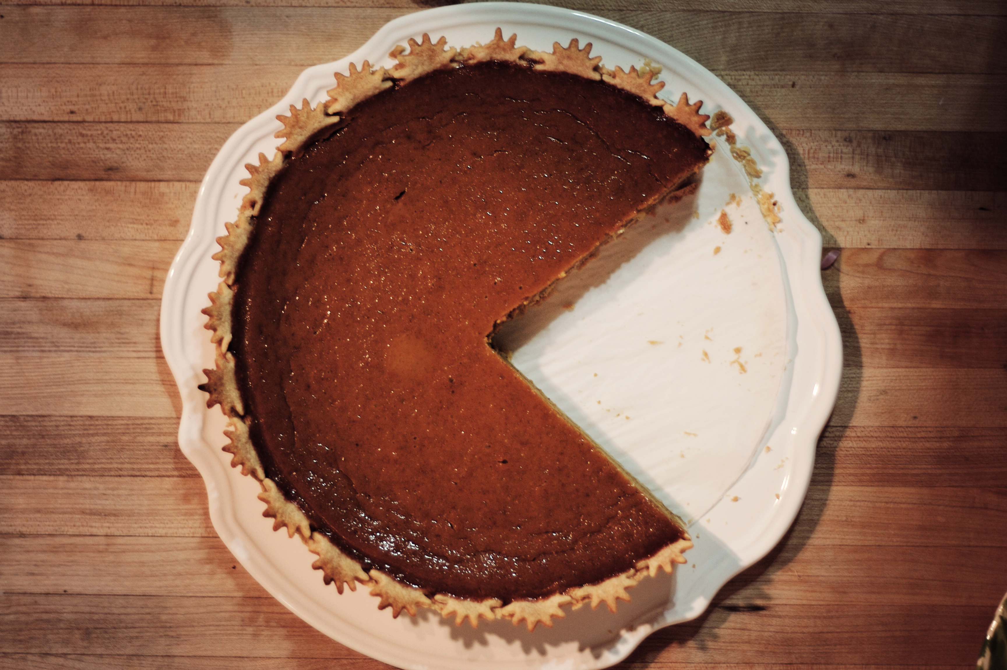 Pumpkin Pie